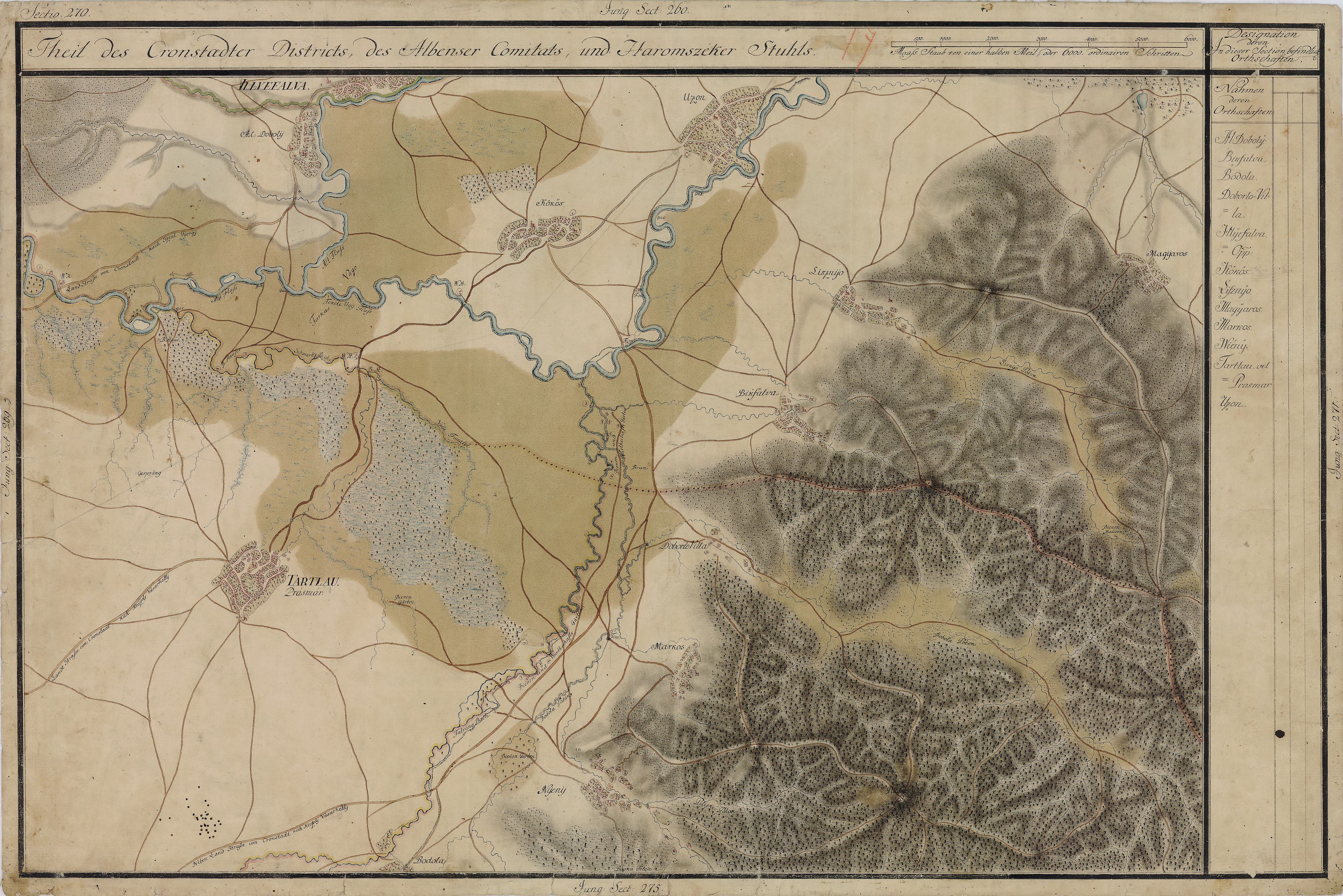 Grand Duchy of Transylvania, 1769-1773. Josephinische Landaufnahme pg.270